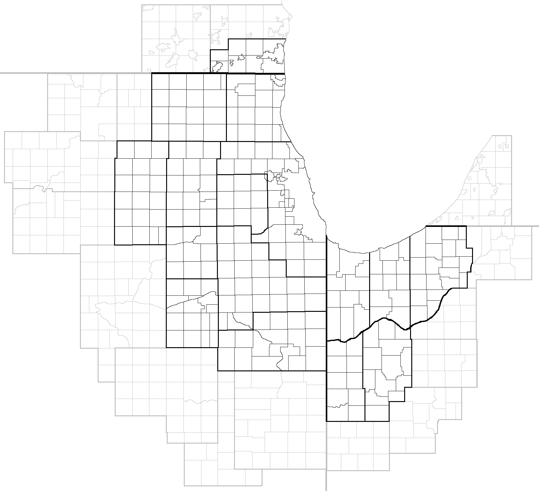 Marathone